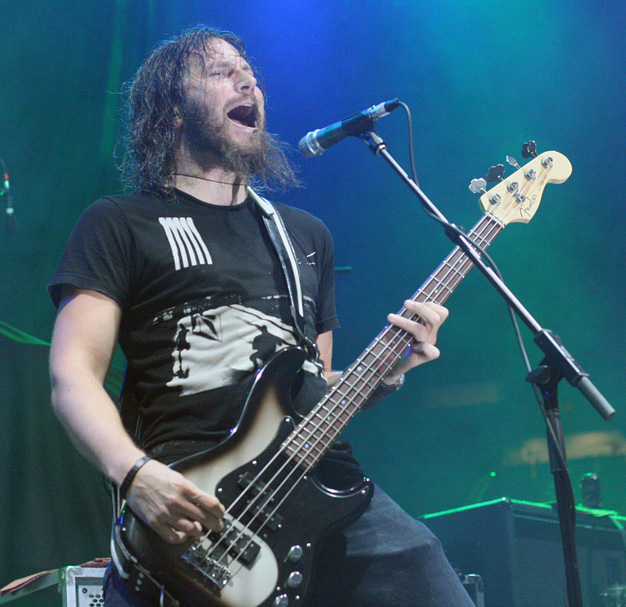 Troy Sanders from Mastodon at Nassaue Coliseum, June 2006.